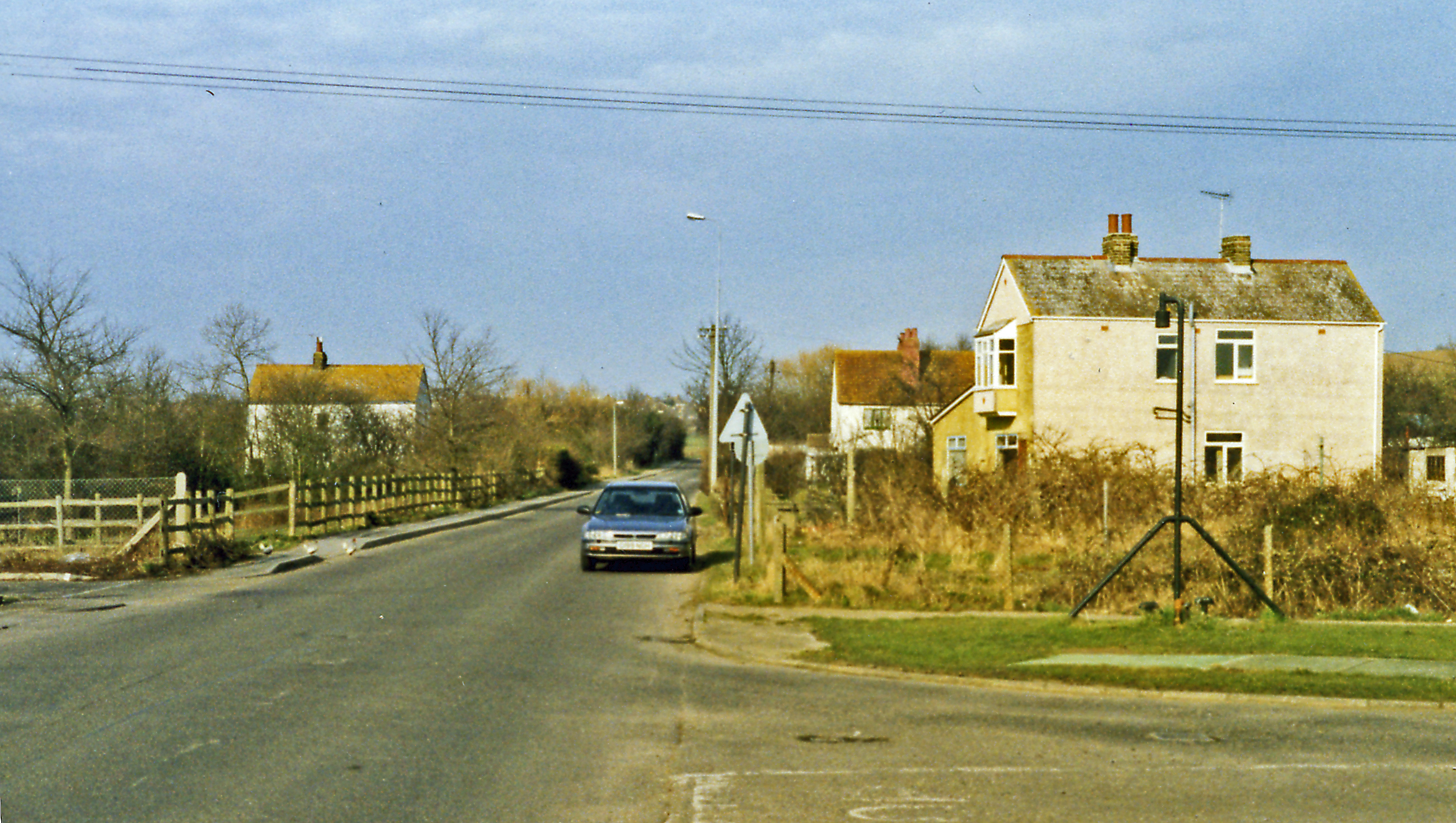 Site of former Eastchurch station, 1995. View northward, across the location of a crossing on the ex-SE&CR Sheppey Light Railway, Queenborough (to left) - Leysdown (to right), which closed long ago, on 4/12/50